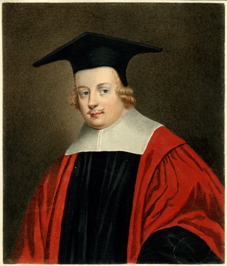 Portrait of the English churchman Henry Hammond, D.D., by Sylvester Harding. Watercolour and bodycolour drawing. 140 mm x 119 mm. Courtesy of the British Museum, London.